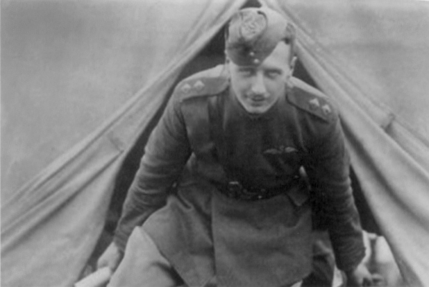 Photograph of Lieutenant Leefe Robinson VC. Robinson died on 31 December 1918.